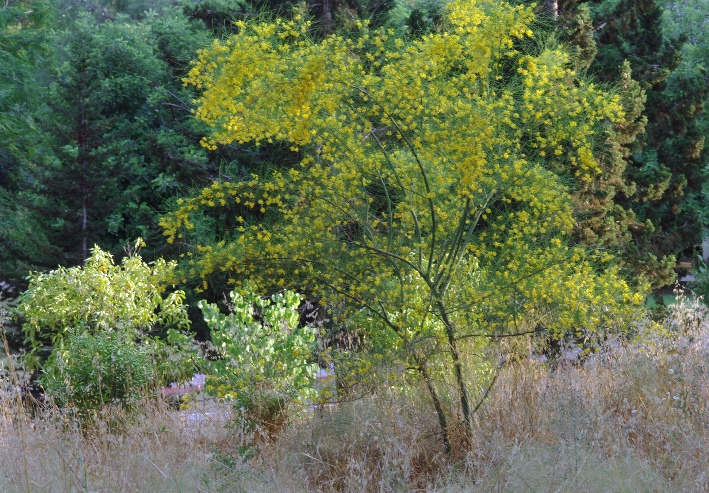 A flowering tree of Jarusalem thorn (Parkinsonia aculeata). Çukurova University Campus, Adana - Turkey.